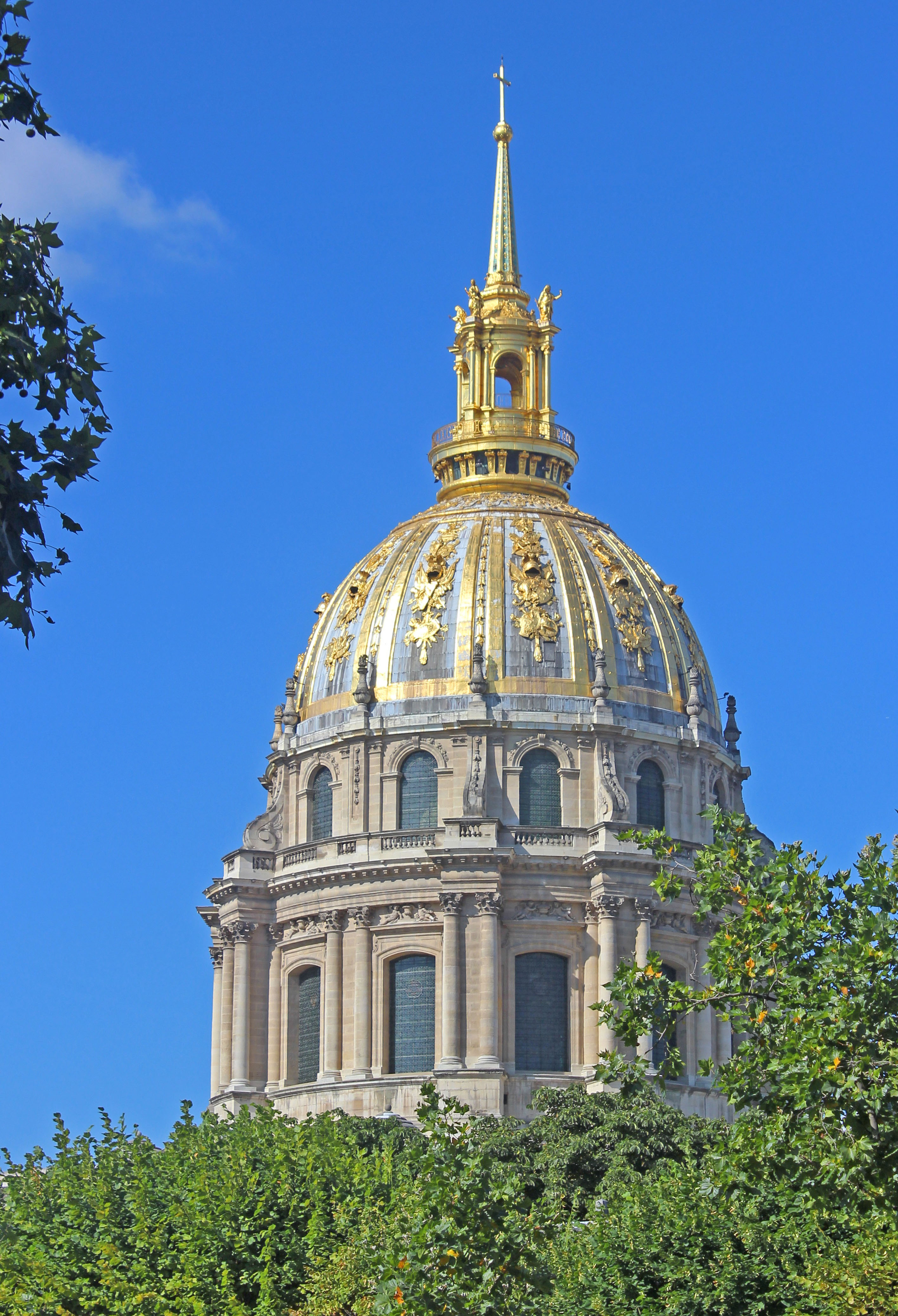 Dome of Hotel of the Invalides in Paris